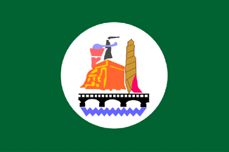 Flag of Bani Suwayf Governorate Image made by J. Ollé